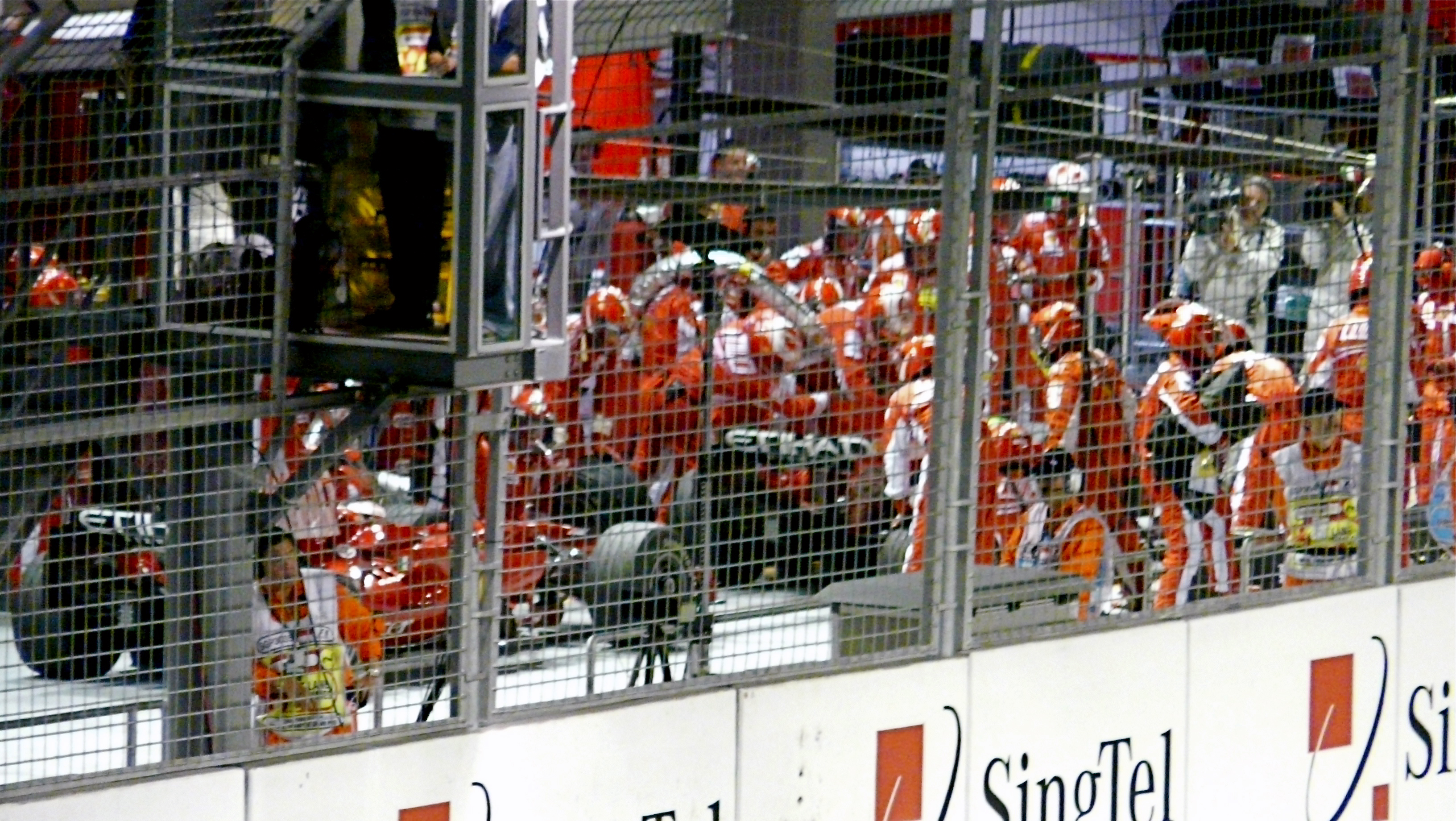 2008 Singapore Grand Prix Massa re-fuelling incident